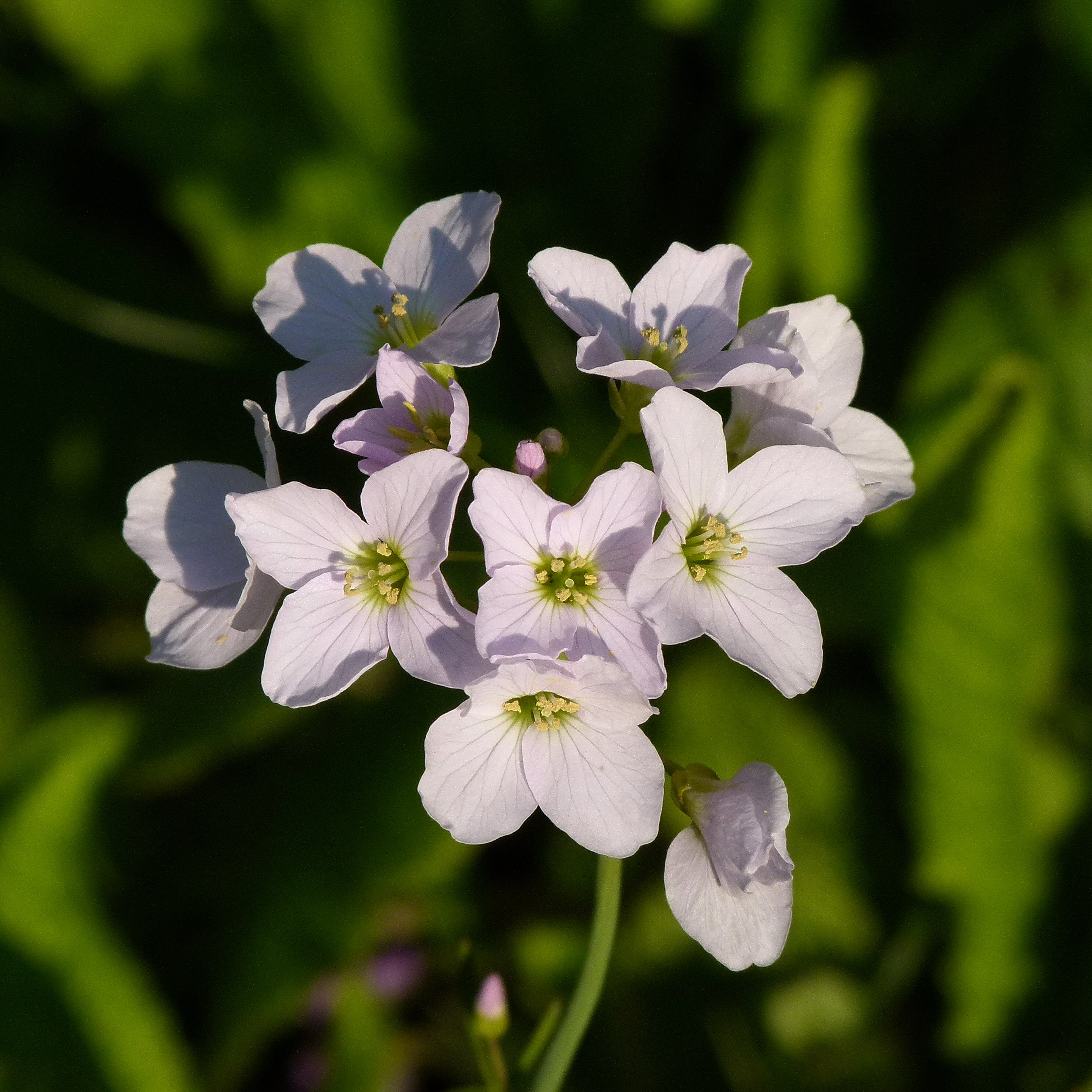 Cuckoo flower